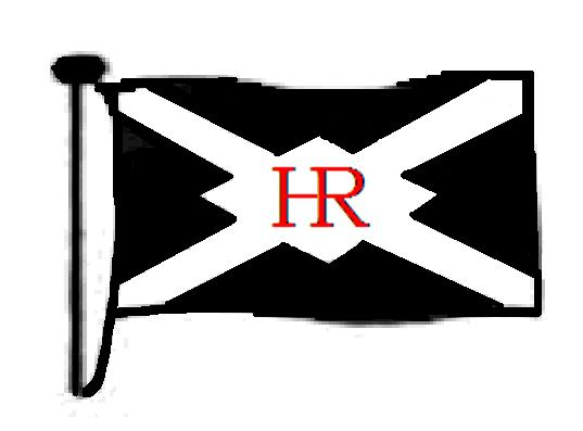 Drawing of Hall Russell flag.